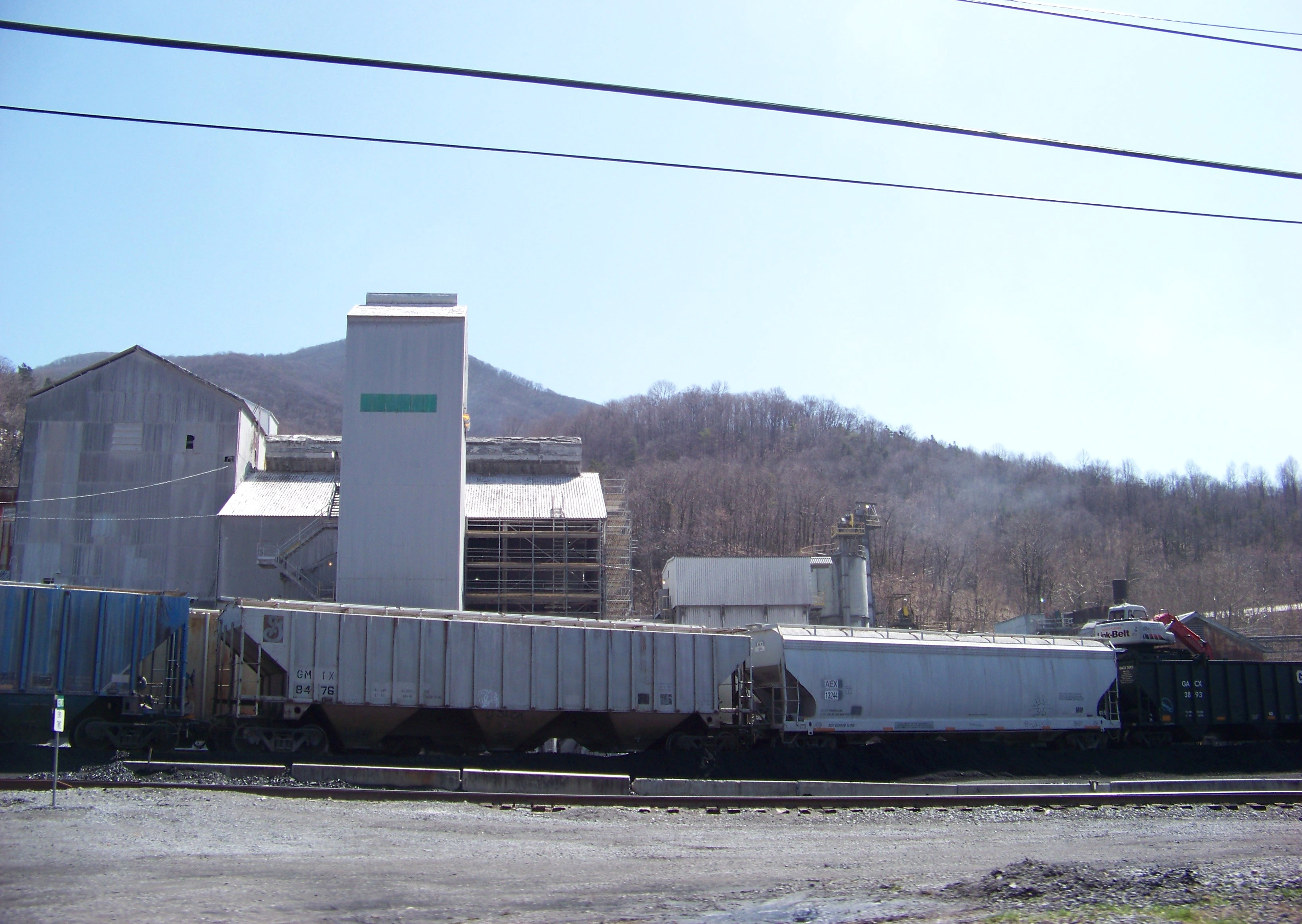 Eastern, VA, USA